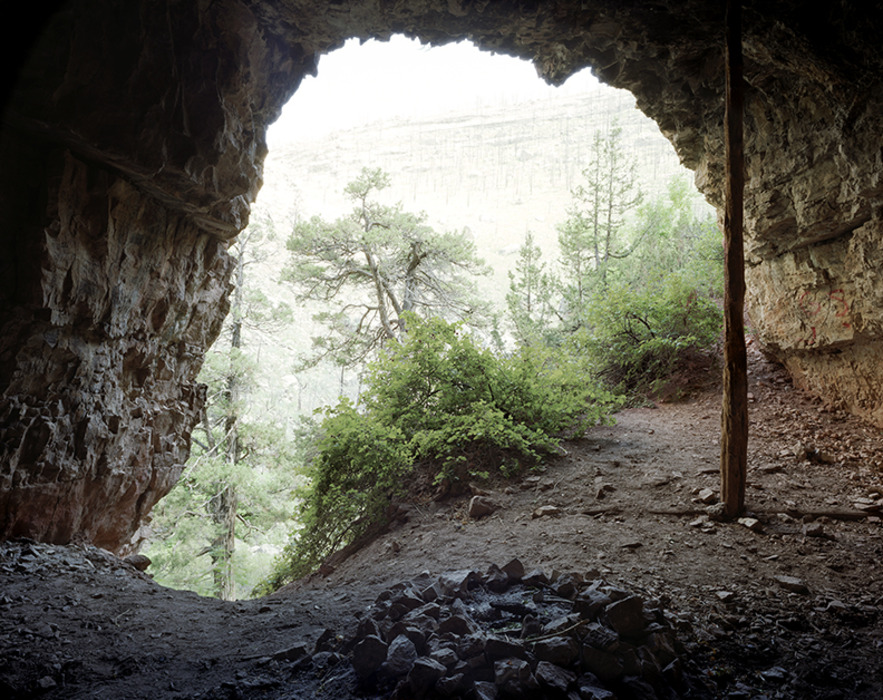 Butch Cassidy and the Sundance Kid Greg Stimac, 2009